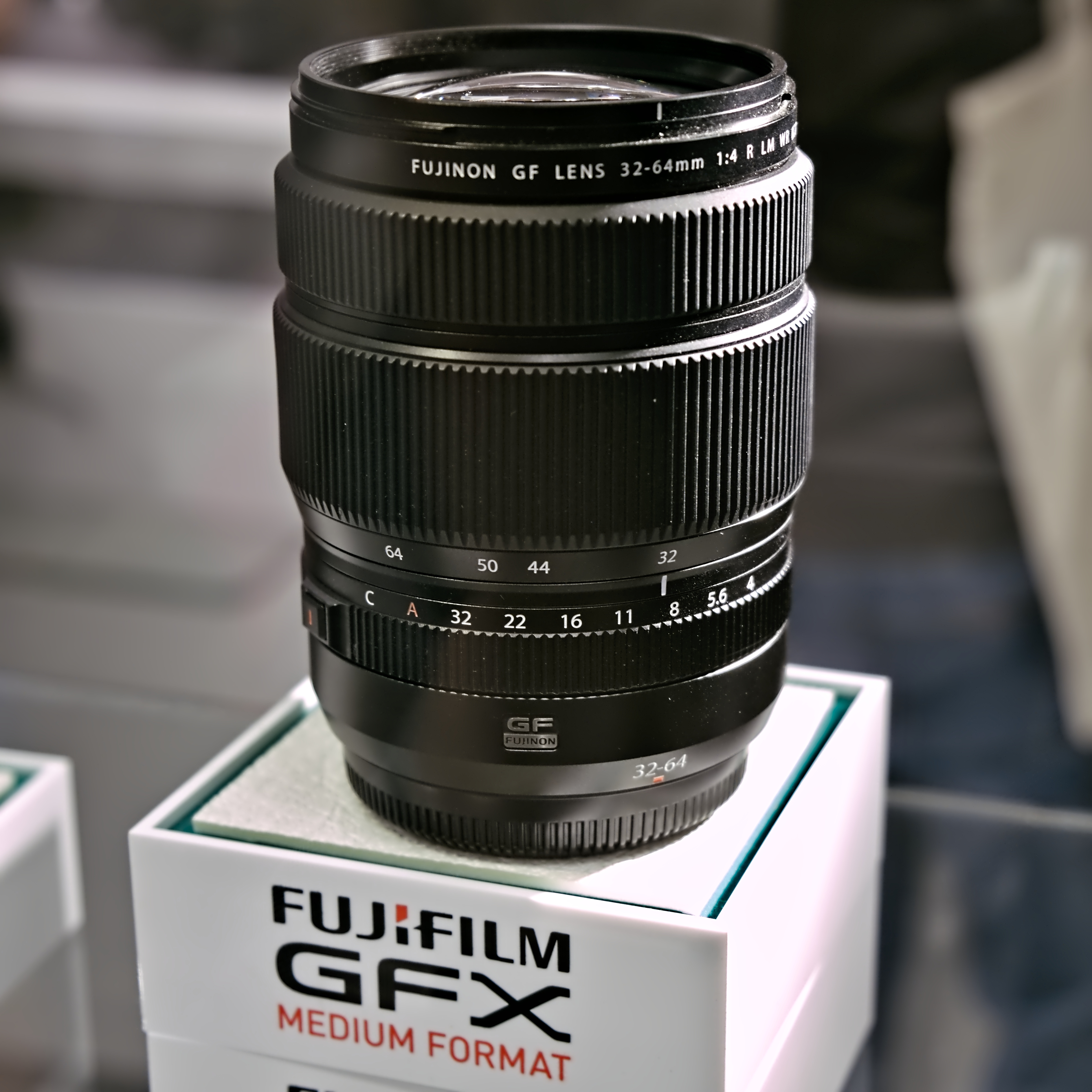 Fujifilm GF 32-64 mm f/4 R LM WR for Fujifilm G-mount